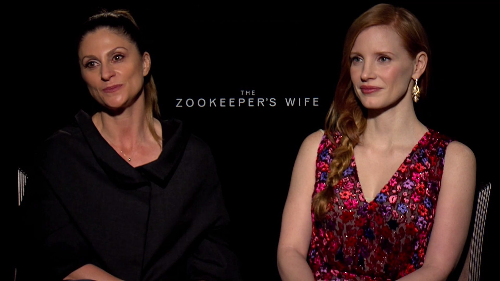 Jessica Chastain and Niki Caro interview for AMFM in 2017